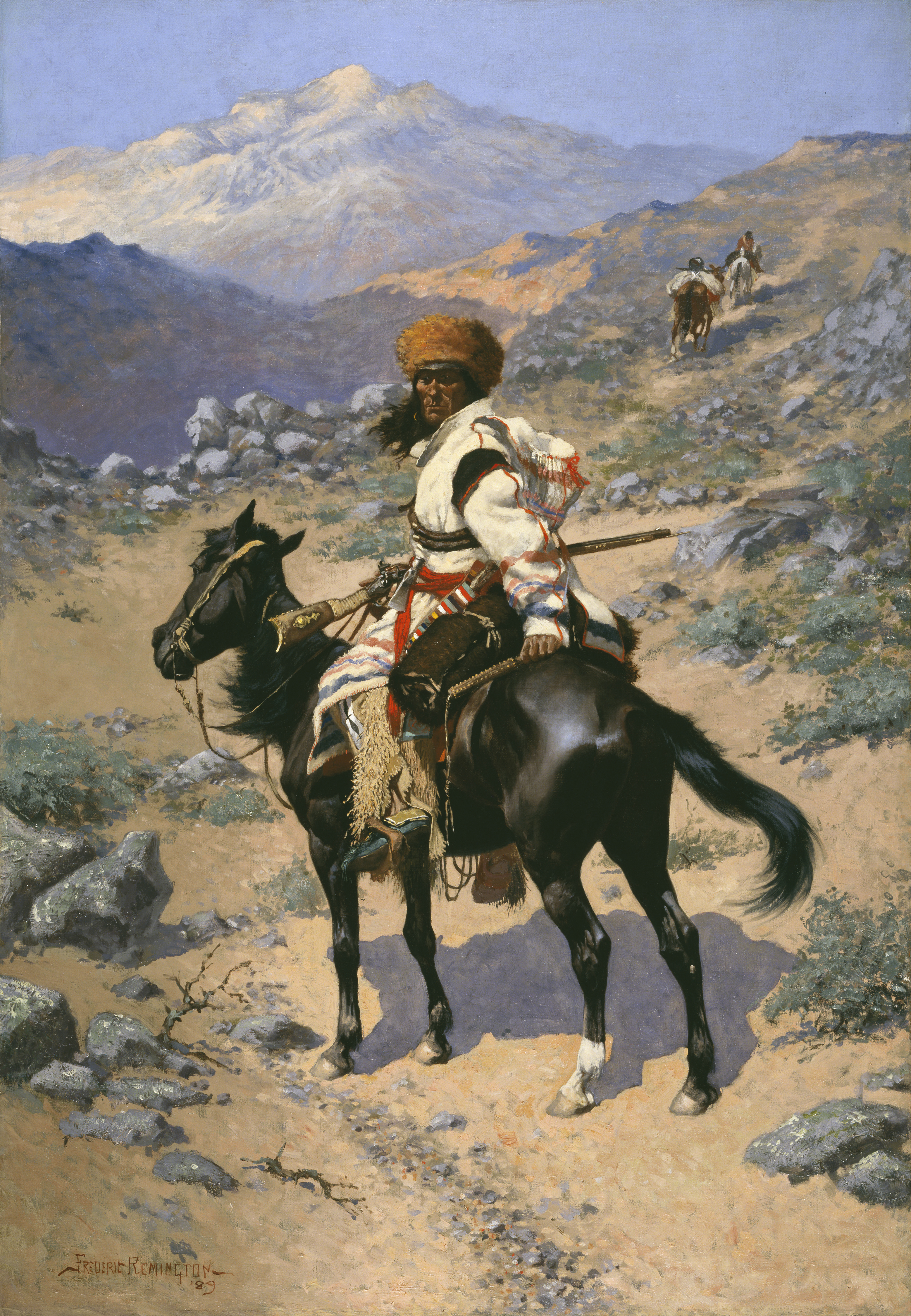 Frederic S. Remington (1861-1909); An Indian Trapper; 1889; Oil on canvas; Amon Carter Museum of American Art, Fort Worth, Texas, Amon G. Carter Collection; 1961.229